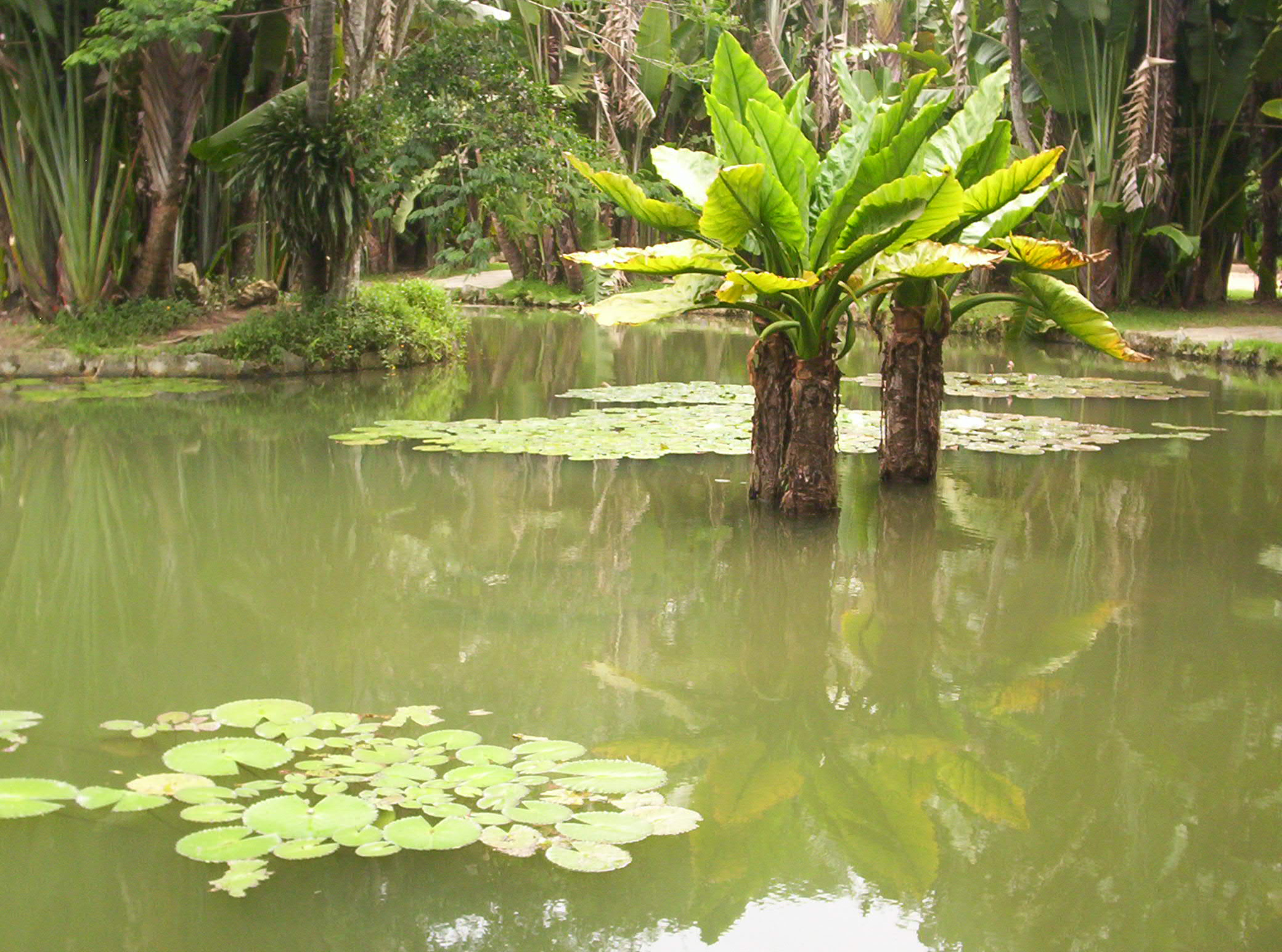 One of the three lagoons located in the Rio de Janeiro Botanical Garden, Brazil.